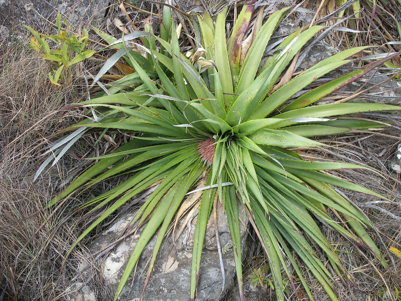 Puya nana in habitat in Bolivia, exact location unknown.